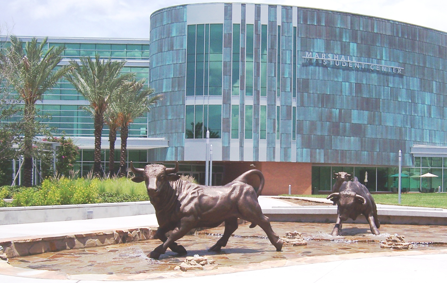 The Running of the Bulls in front of the University of South Florida's Marshall Center